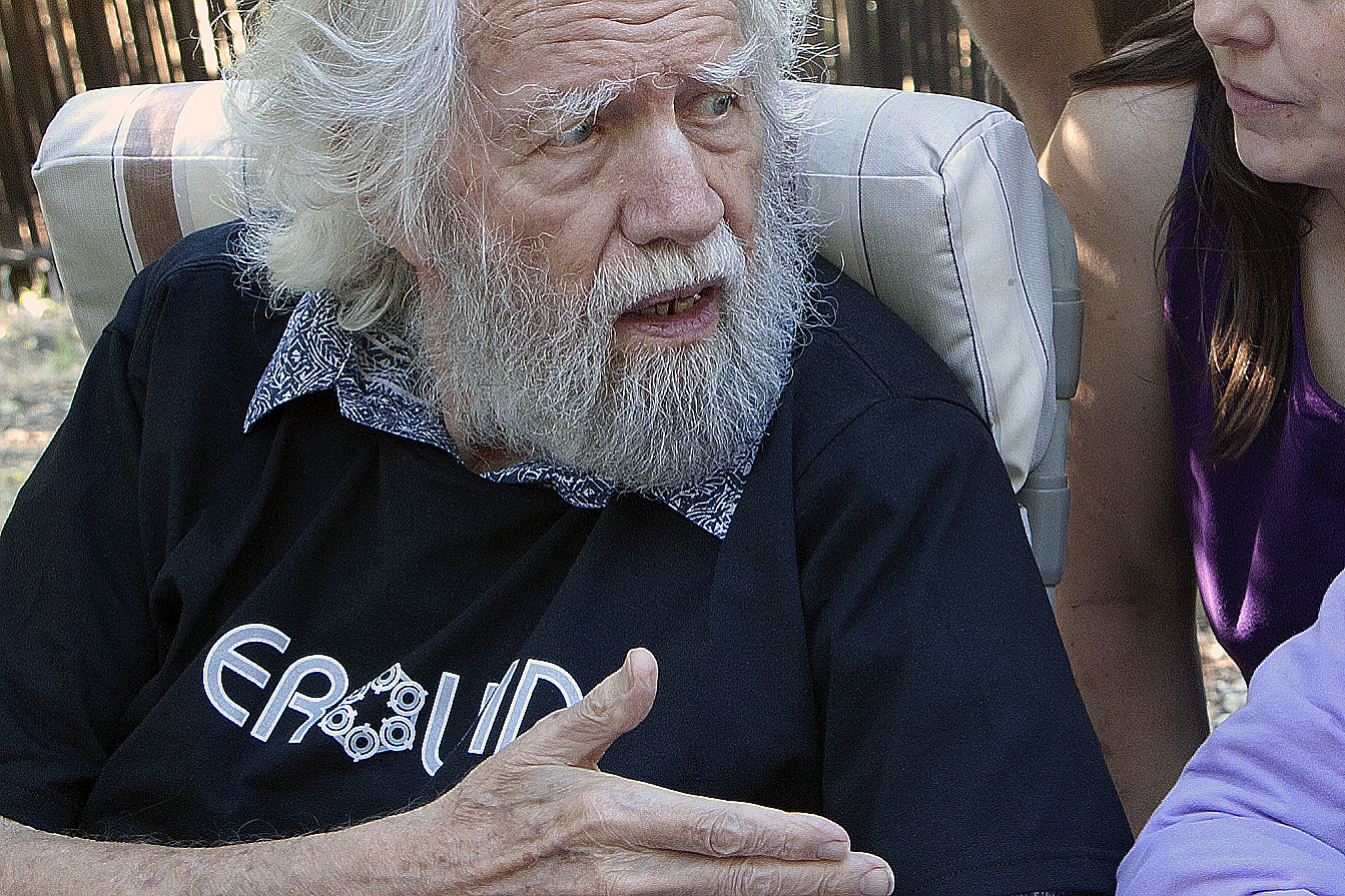 Sasha Shulgin at the Farm, July 19, 2009